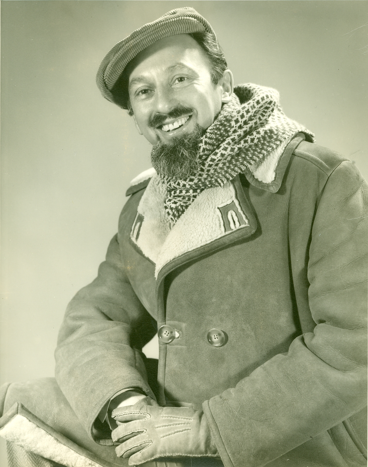 Dr. Morris Shumiatcher